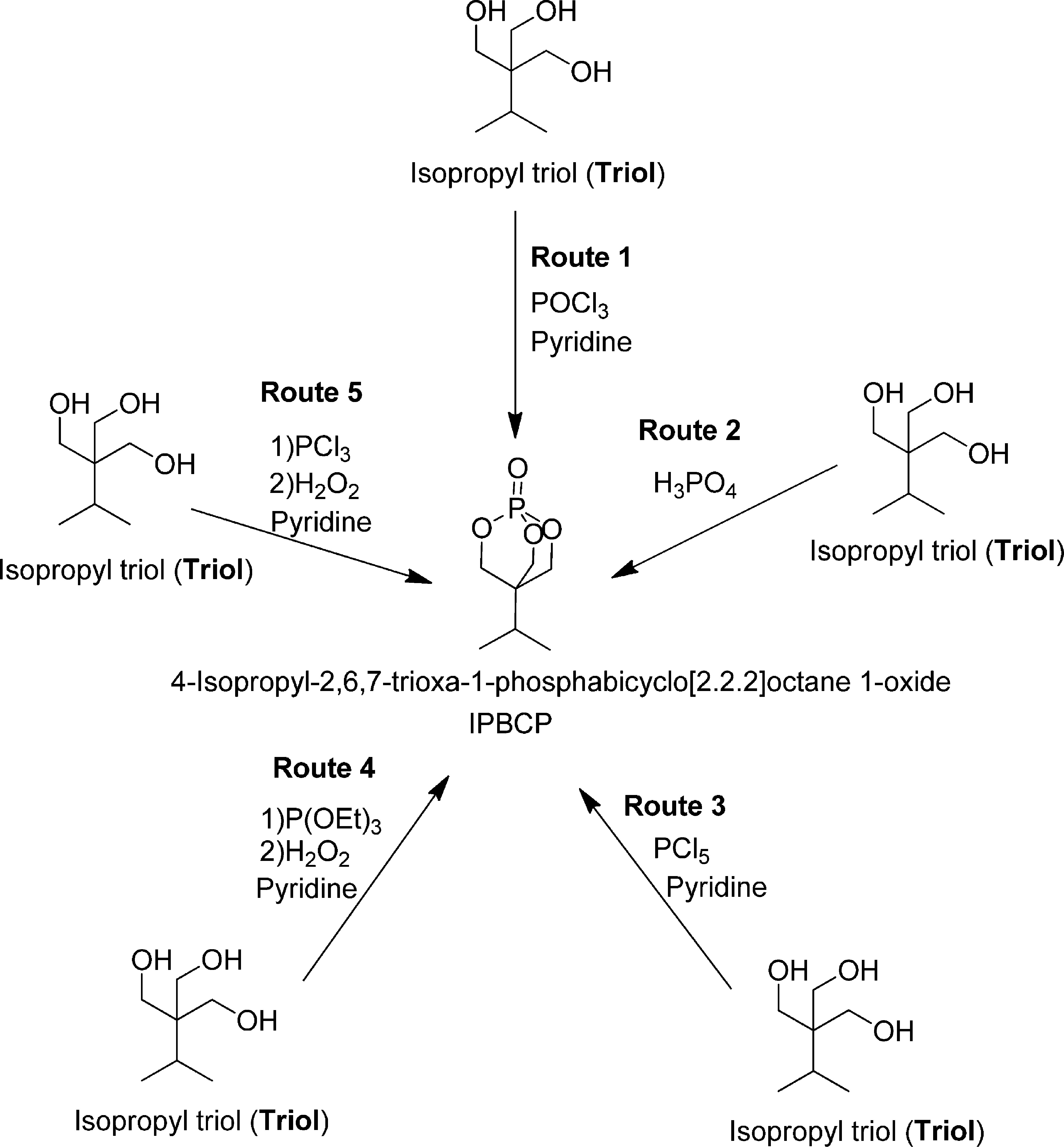 This image shows different ways of synthesizing isopropylbicyclicphosphate (IPTBO) from five different reagents.